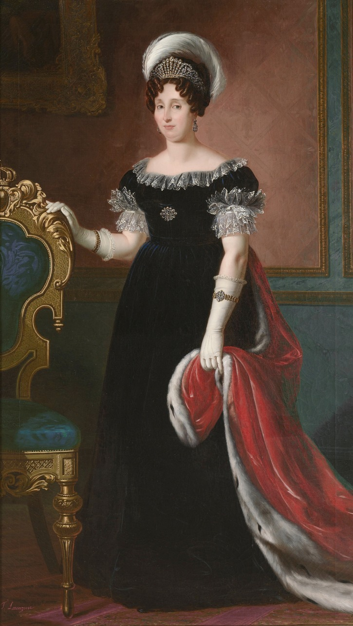 Maria Theresa of Austria-Este, Queen of Sardinia (1773-1832)